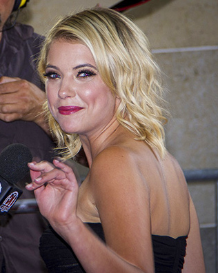 Actress Ashley Benson being interviewed by a reporter for Entertainment Tonight on September 2012.